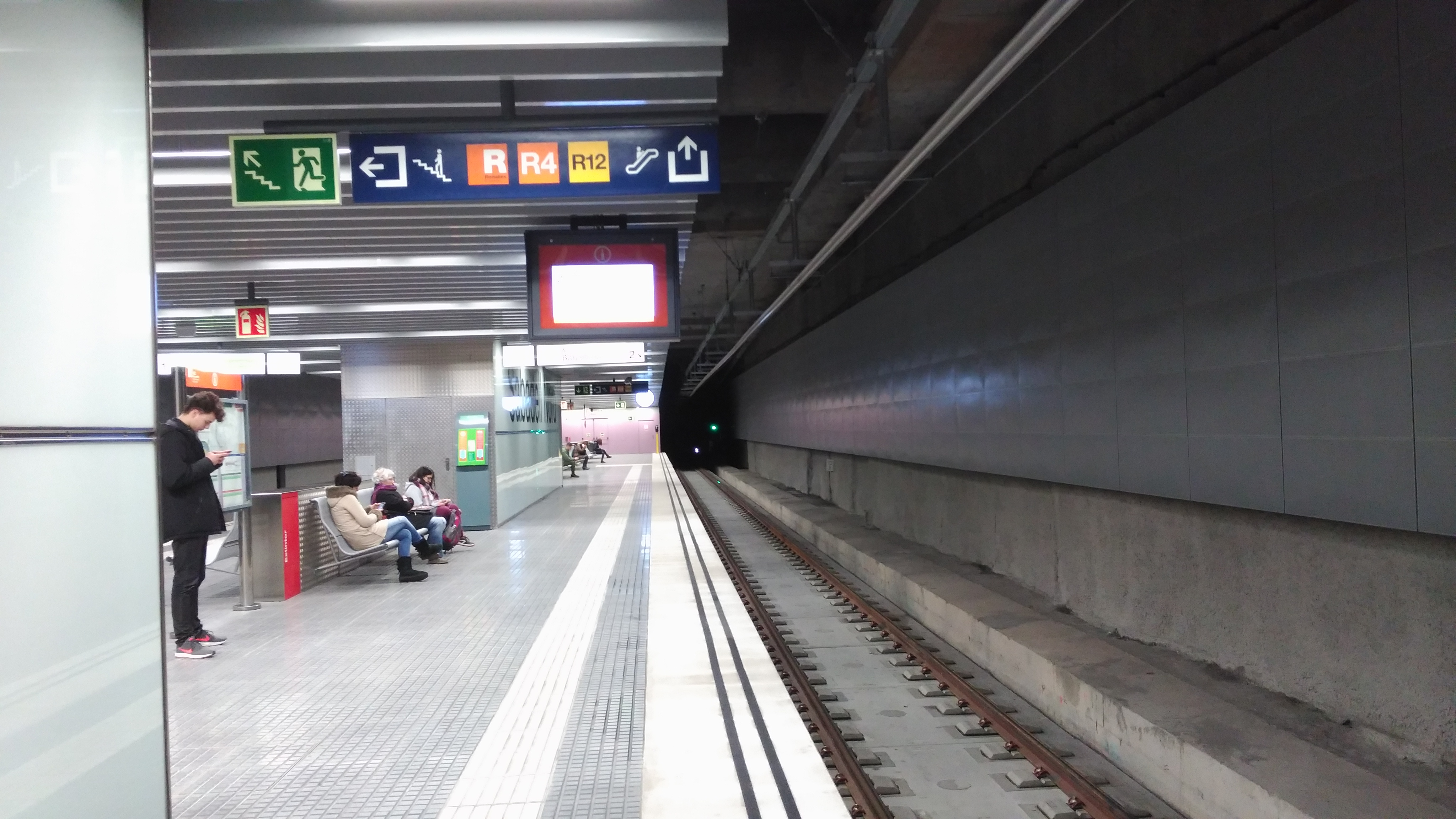 Platforms of the Sabadell Nord FGC station.